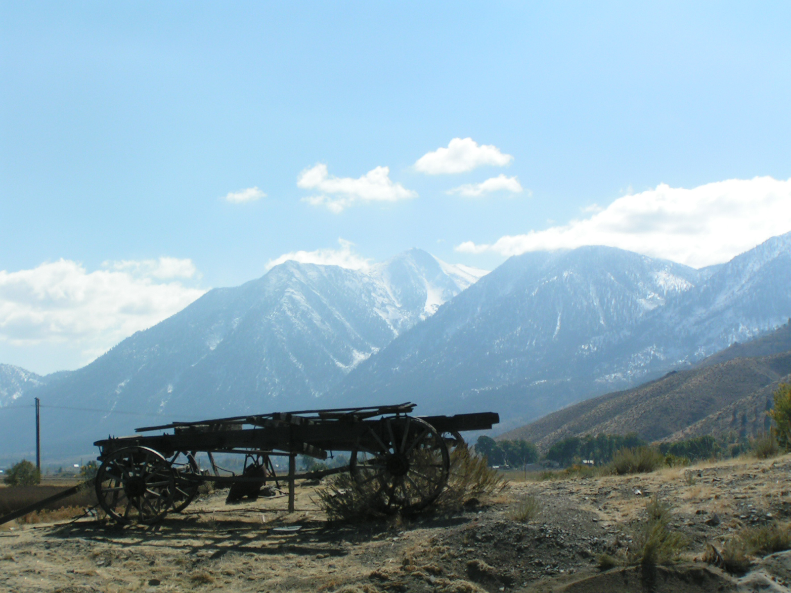 The Carson Range with Jobs Peak — from Wally's Hot Springs, Genoa, Nevada. Credits Uploaded from : Skooiman 04:30, 31 October 2006 (UTC)Job's Peak and the Carson Range from Wally's Hot Springs, Genoa, NV. Taken by Scott Kooiman October 2006.